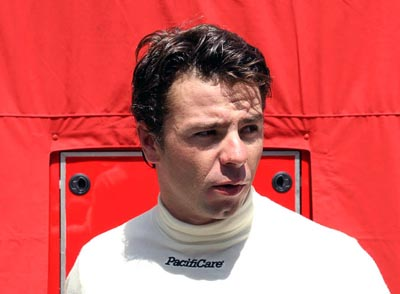 Oriol Servia / Champ Car World Series / 2005 San Jose Grand Prix